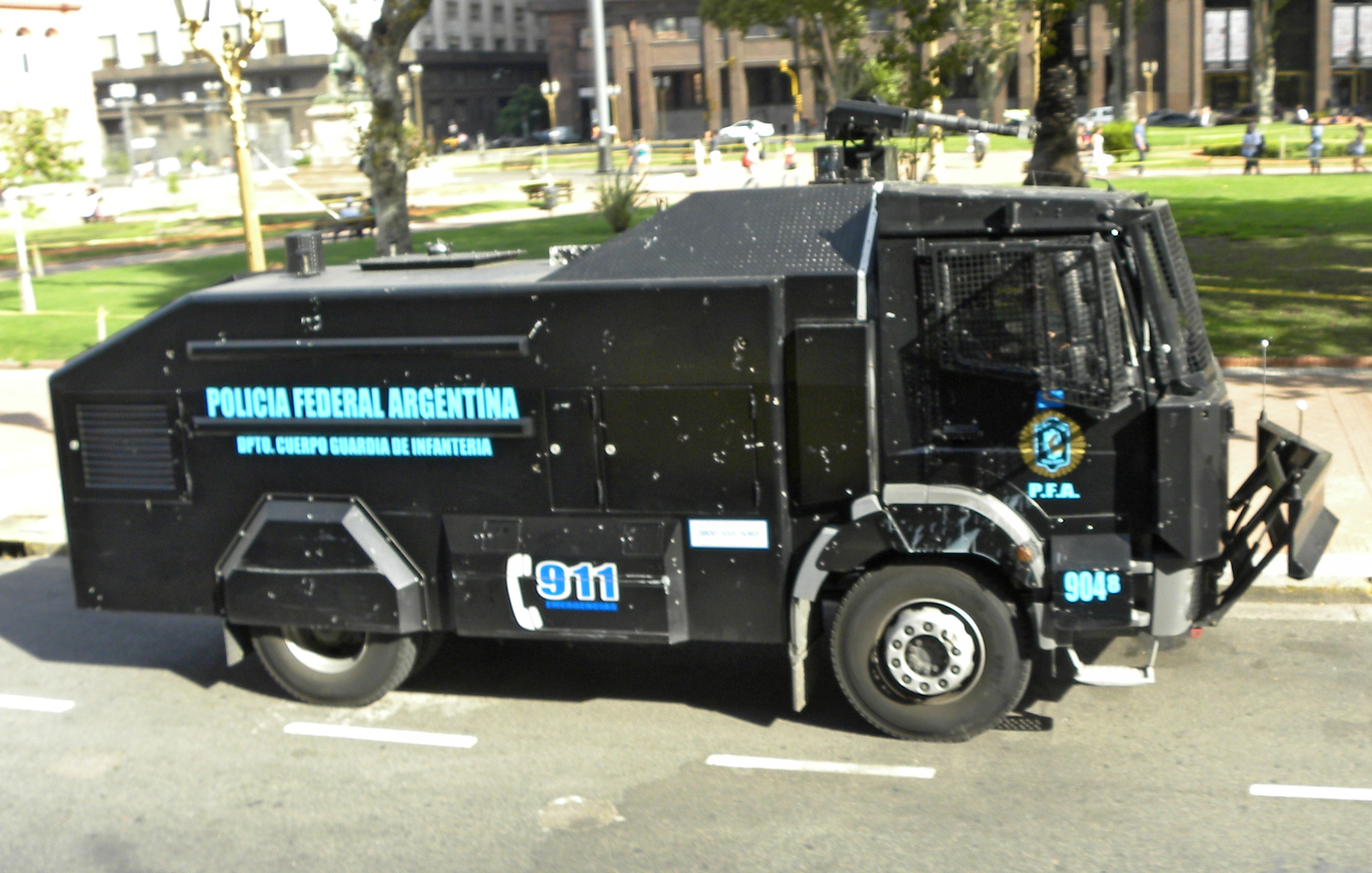 Argentine Federal Police Car.